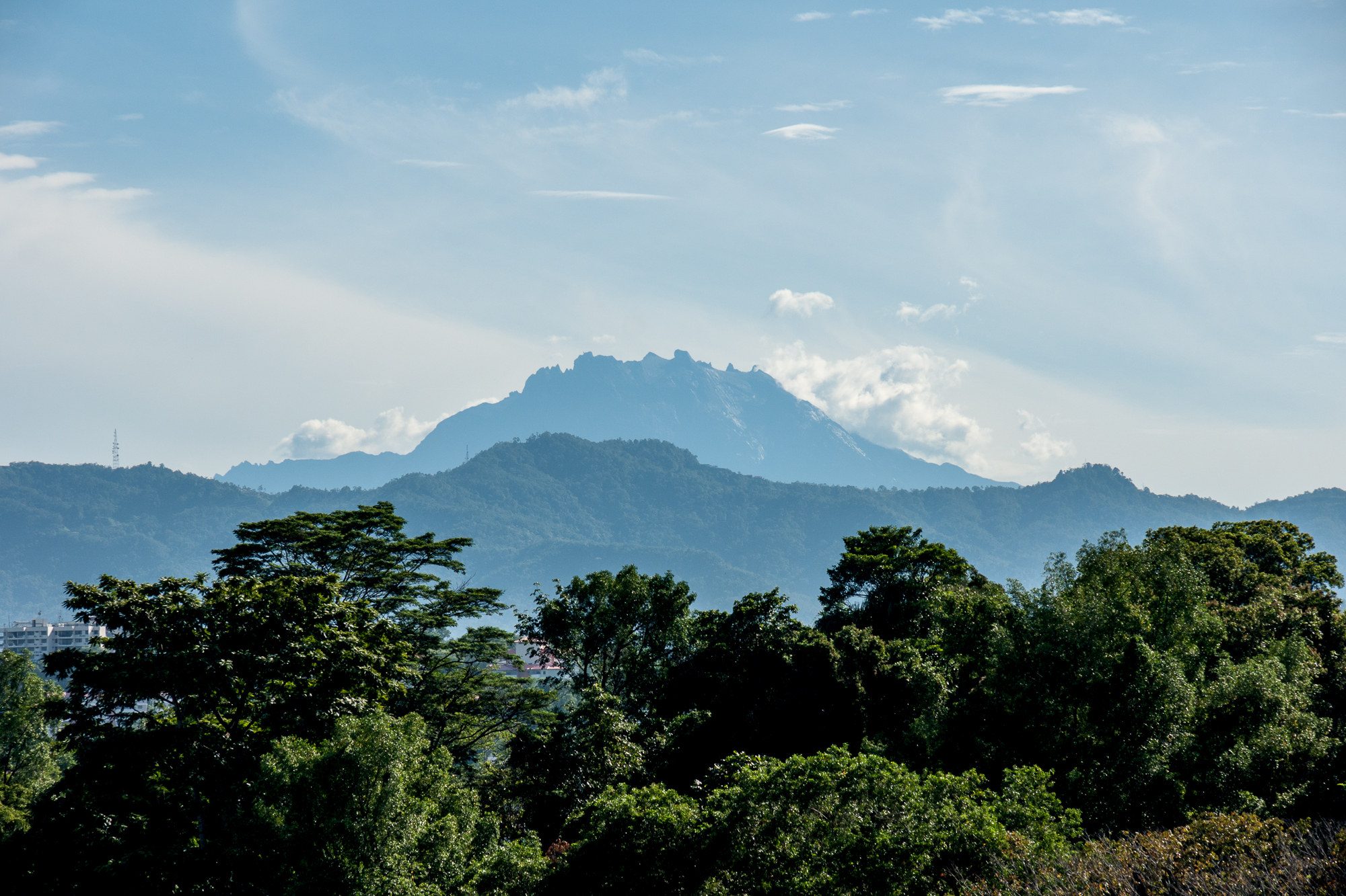 Kota Kinabalu (Sabah): View from the CHE SUI KHOR Pagoda to Mount Kinabalu)